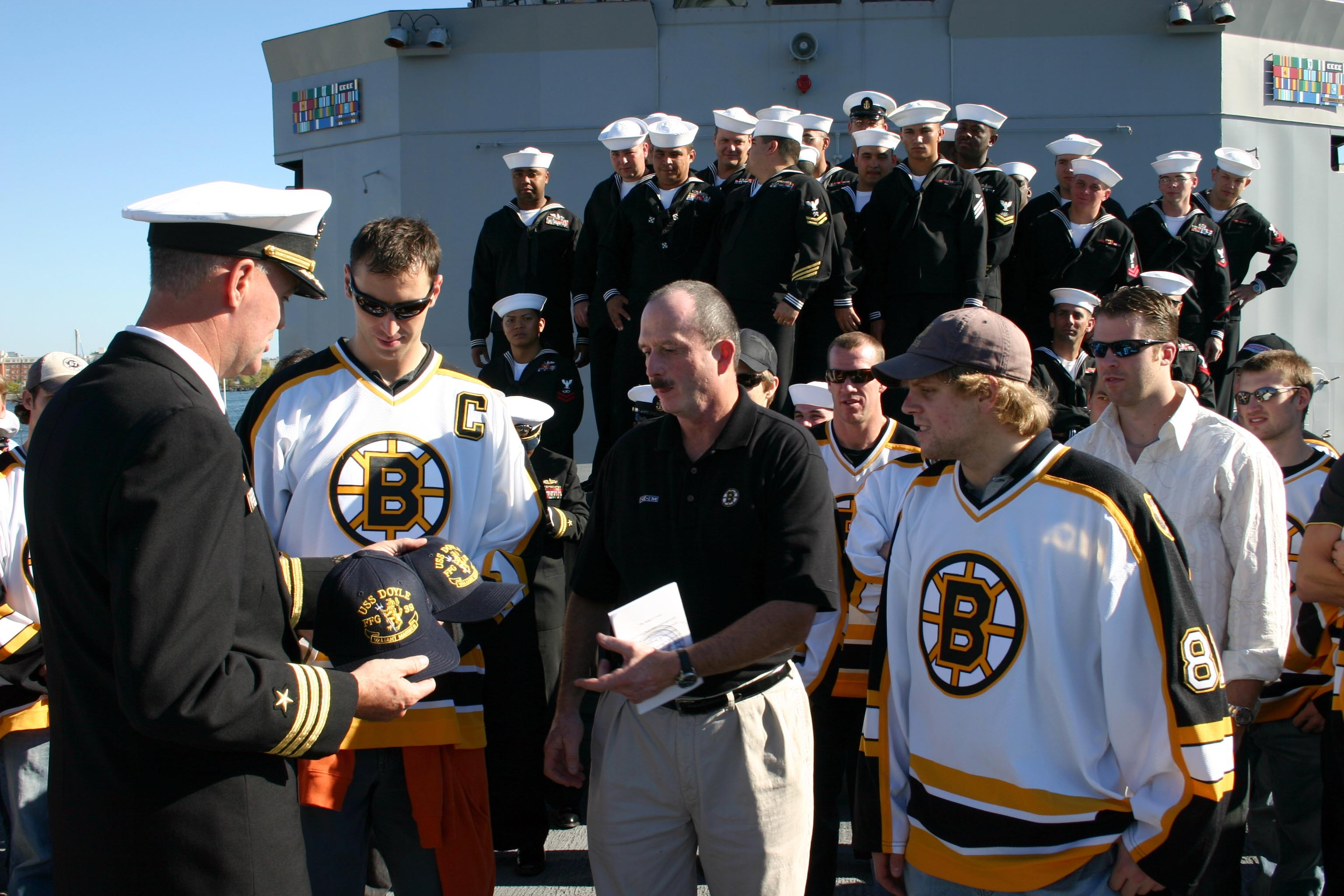 USS Doyle (FFG 39) Commanding Officer, Cmdr. Michael Elliott, presents command ball caps to (left to right) Boston Bruins team captain Zdeno Chara, Head Coach Dave Lewis, and center Phil Kessel, during a Columbus Day weekend port visit to the city of Boston. The National Hockey League team spent the holiday afternoon aboard Doyle paying tribute to the crew’s service to country.